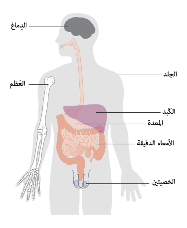 DIagram showing where lymphoma can spread in the body.